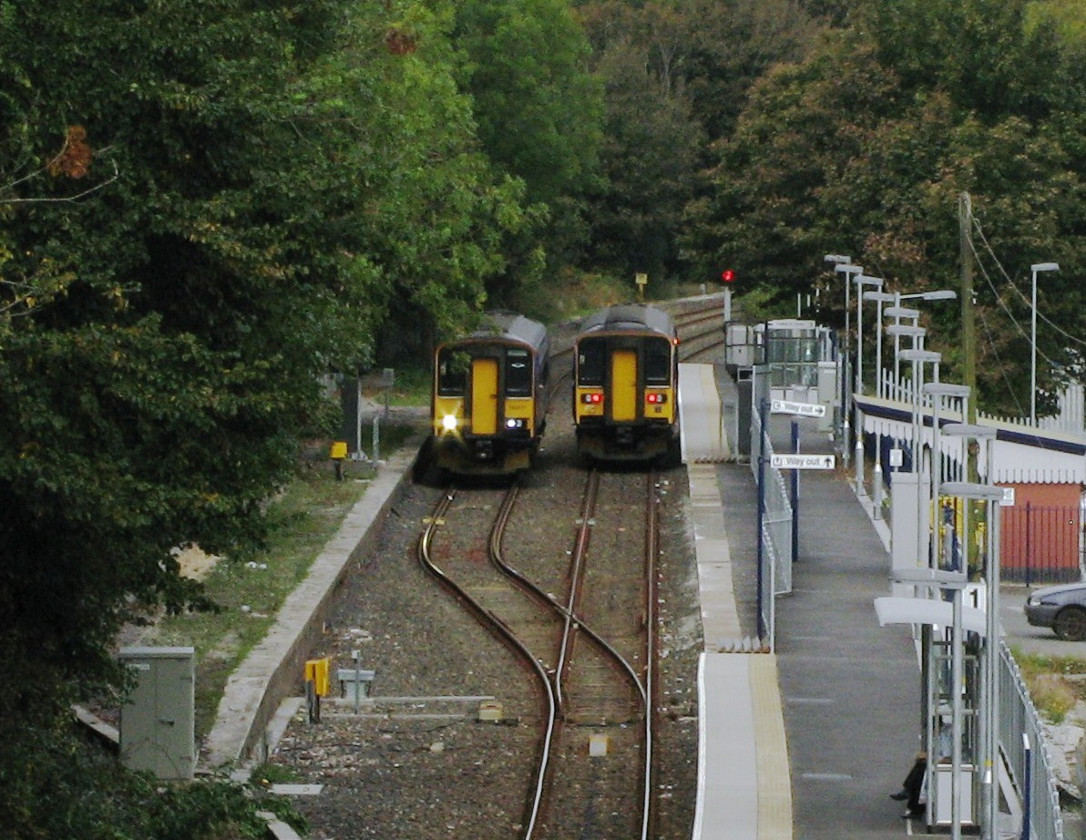 Penryn station, Cornwall. 153377 (left) heading to Falmouth passes 153369 which is waiting to leave for Truro. (This version cropped for better clarity)